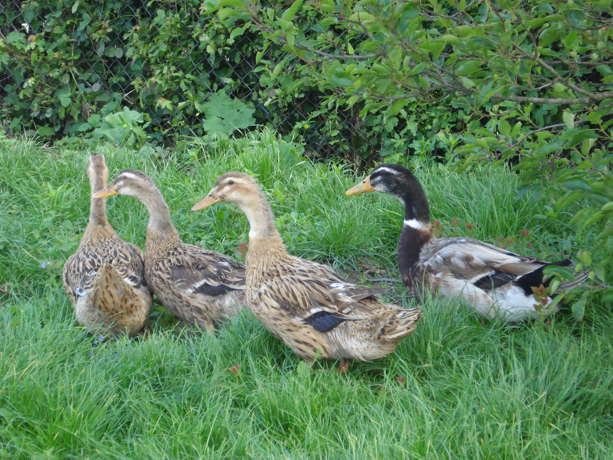 Ducks on a farm in Polonje village at Sveti Ivan Zelina, CroatiaHrvatski: Patke na seoskom gospodarstvu u naselju Polonje kod Svetog Ivana Zeline, Hrvatska